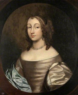 Mary Cholmondeley, 1650 National Trust; Chirk Castle; Supplied by The Public Catalogue Foundation